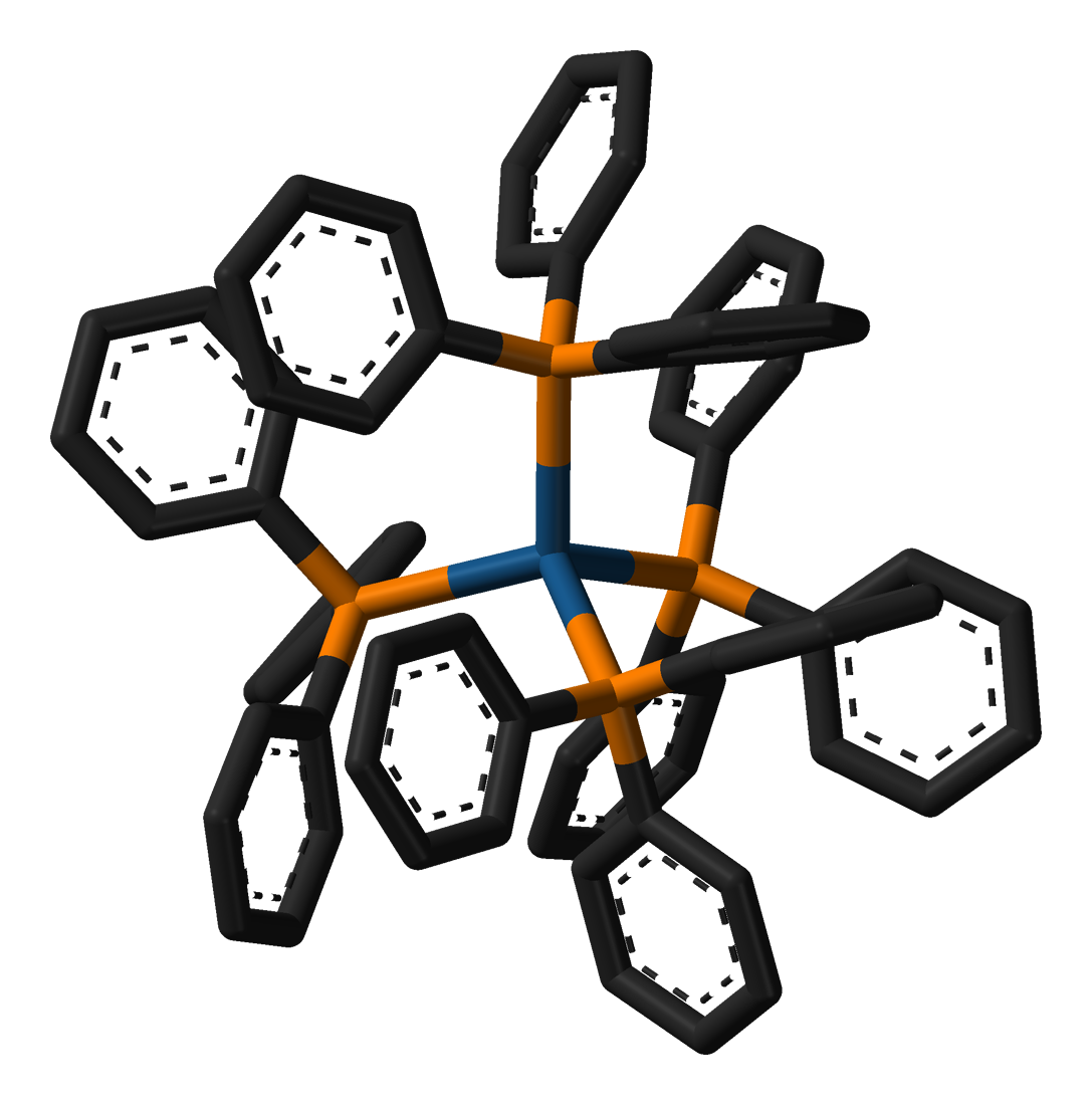 Stick model of the tetrakis(triphenylphosphine)platinum(0) molecule, Pt(PPh3)4